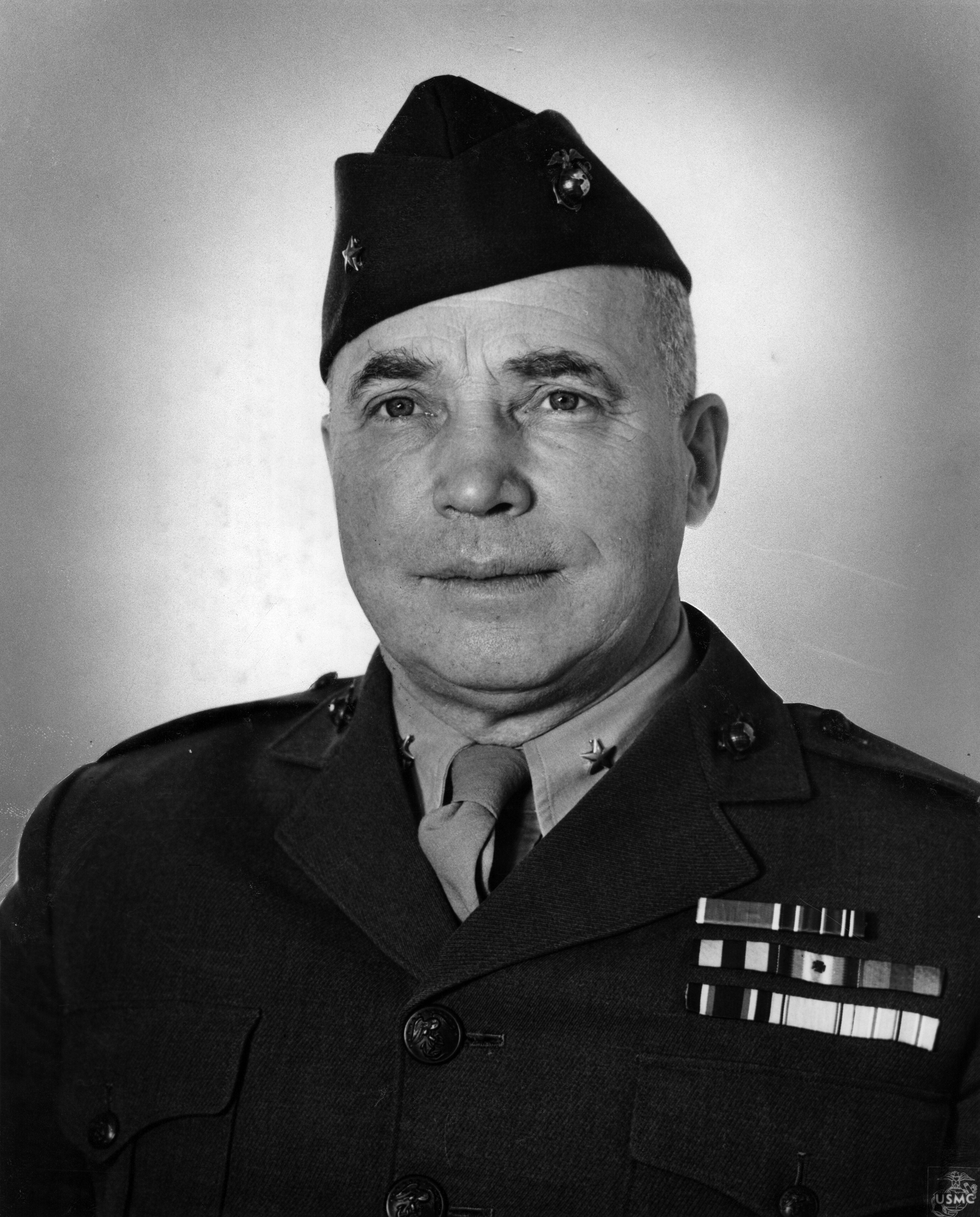 Lyle Holcombe Miller (March 10, 1889 - March 11, 1973) was an Officer of the United States Marine Corps, who reached the rank of Brigadier General. He is most noted for his service as Chief of Staff, Samoa Defense Force during World War II. He unfortunatelly disgraced his good service record by incident with Dai Li, Chiang Kai-shek's Military Intelligence Service Chief, in late 1944.